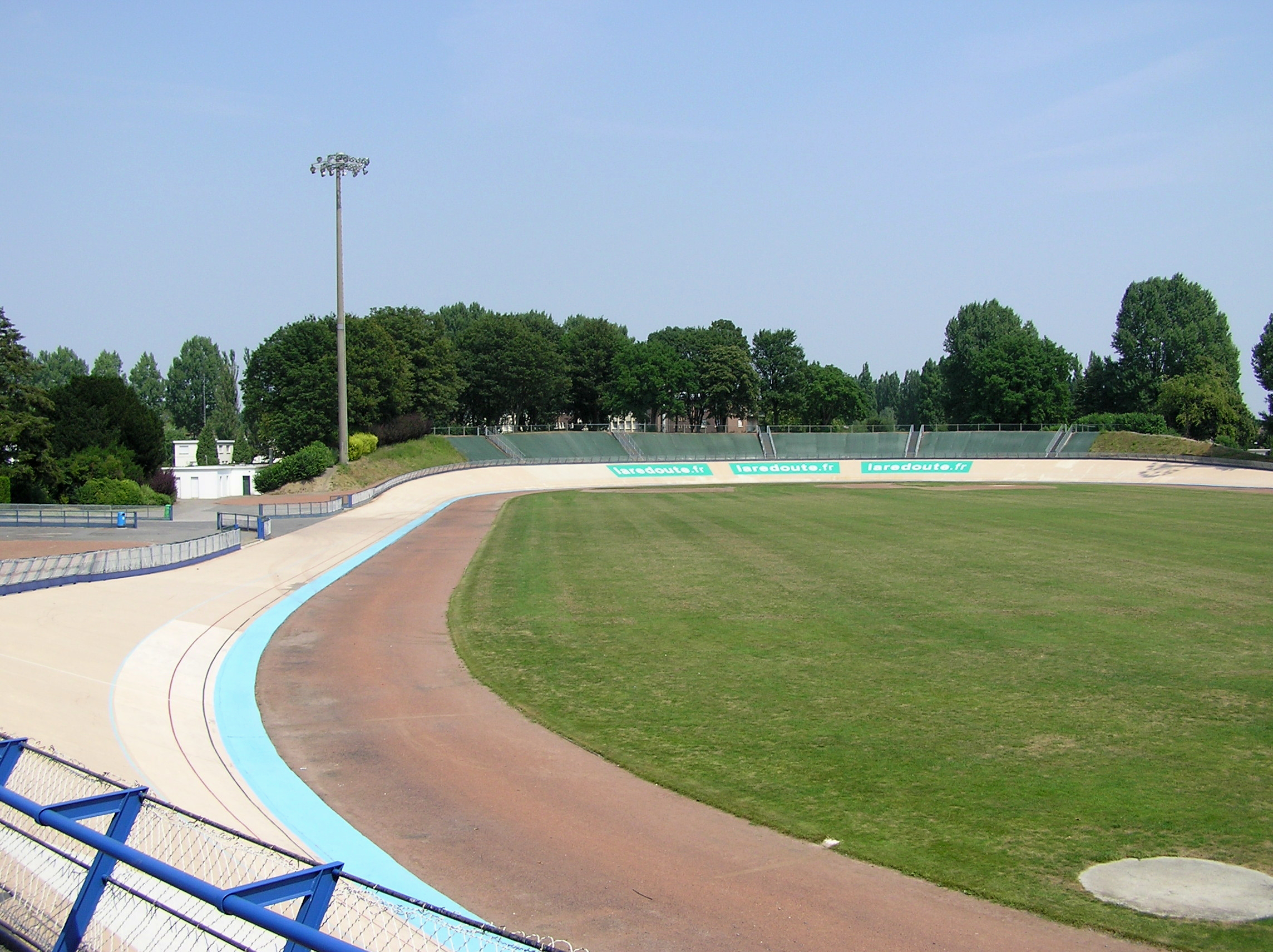 The Vélodrome in Roubaix, France in which the famous Paris-Roubaix bicycle race ends.